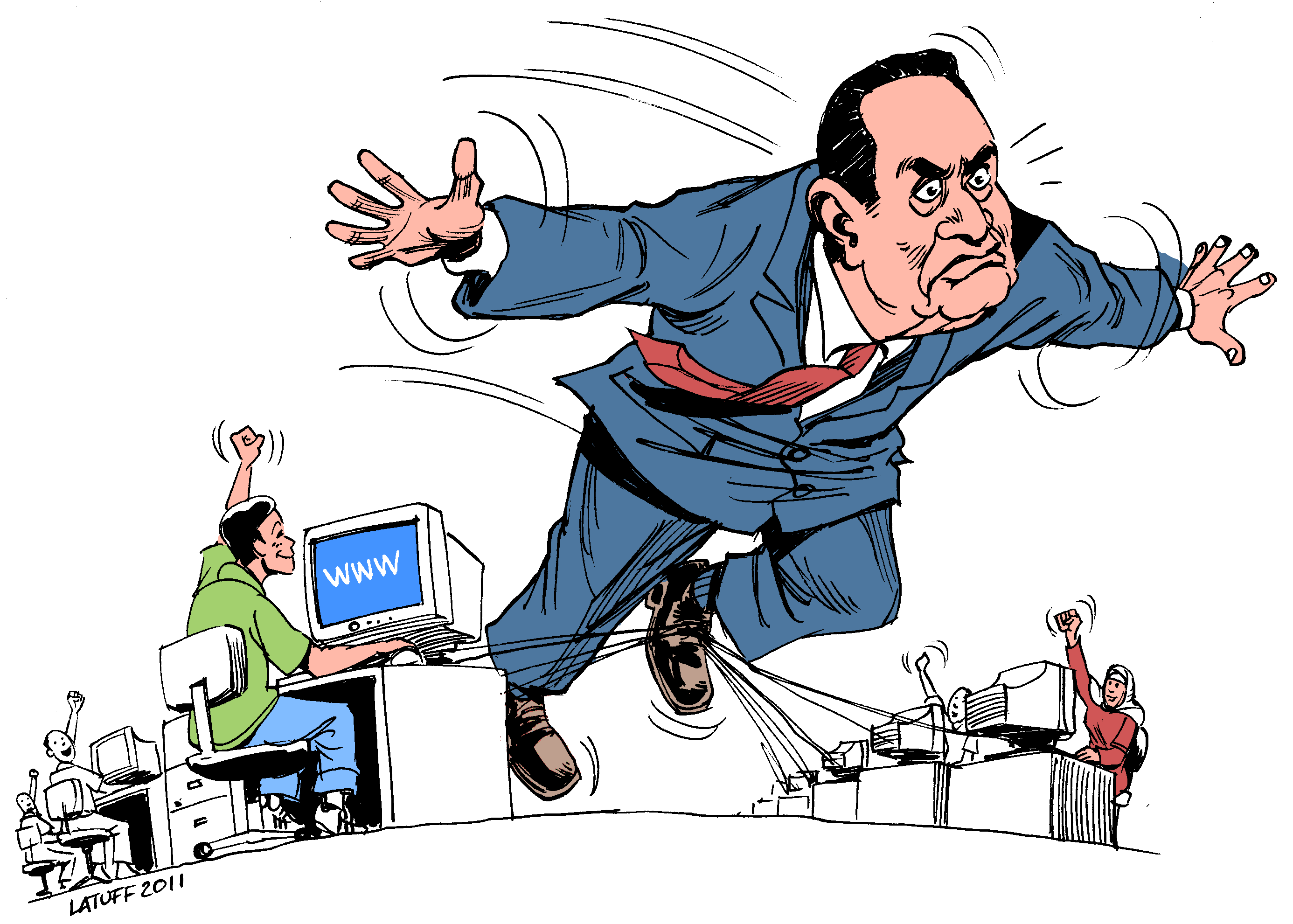 Mubarak Tripping On Tech Generation Media